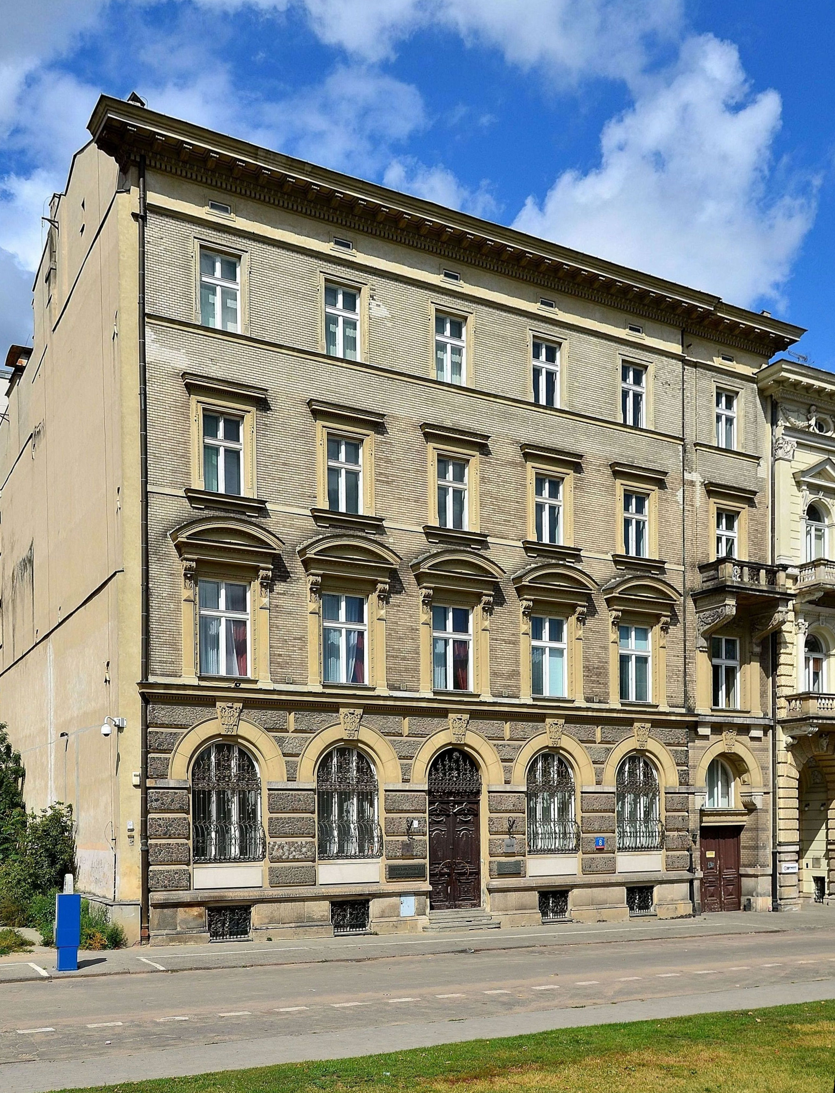 Discount Bank building at 8 Fredry Street in Warsaw (listed in the Register of Historic Monuments on 1.07.1965, reference no. 661)